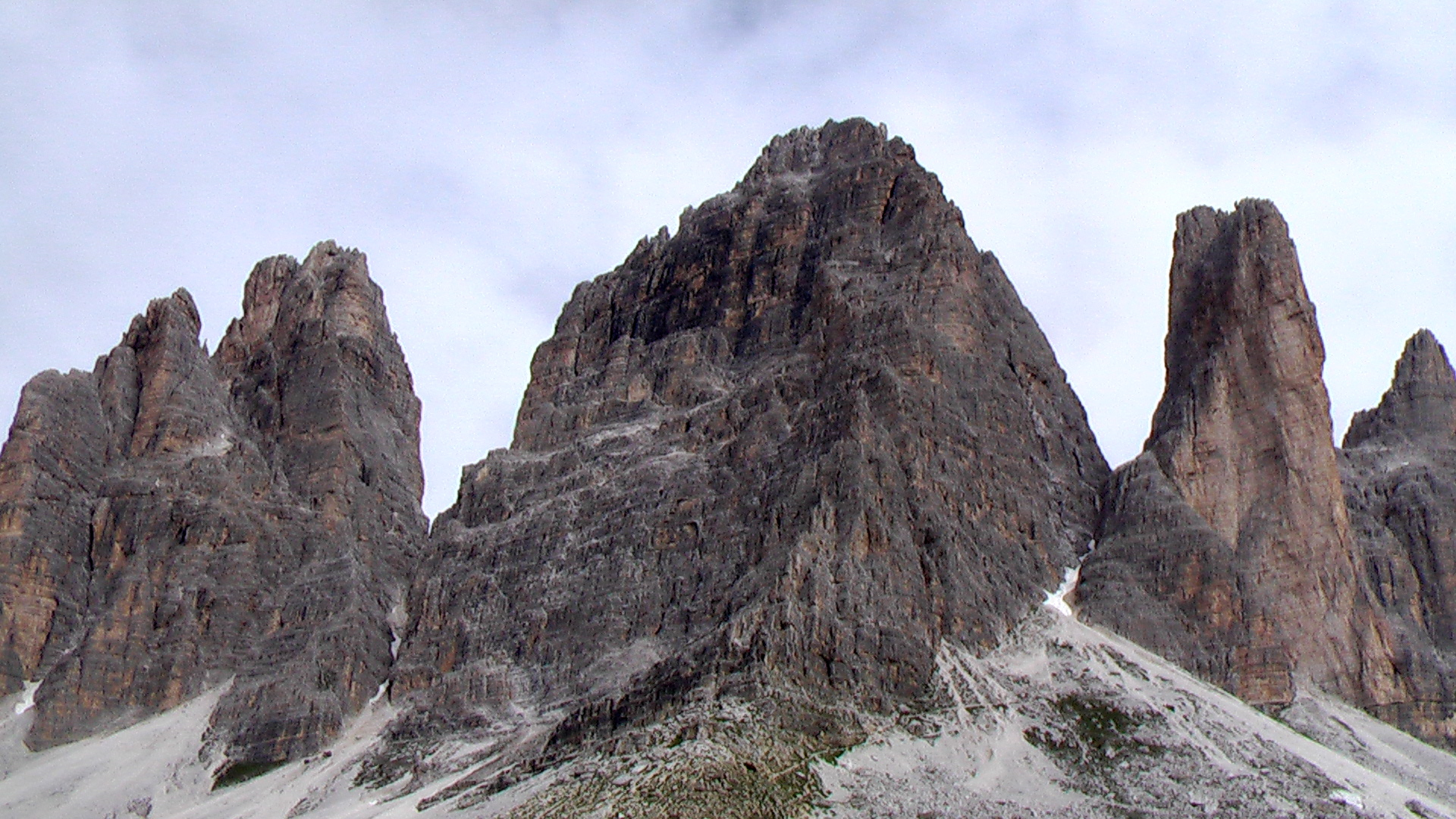 Drei Zinnen from South